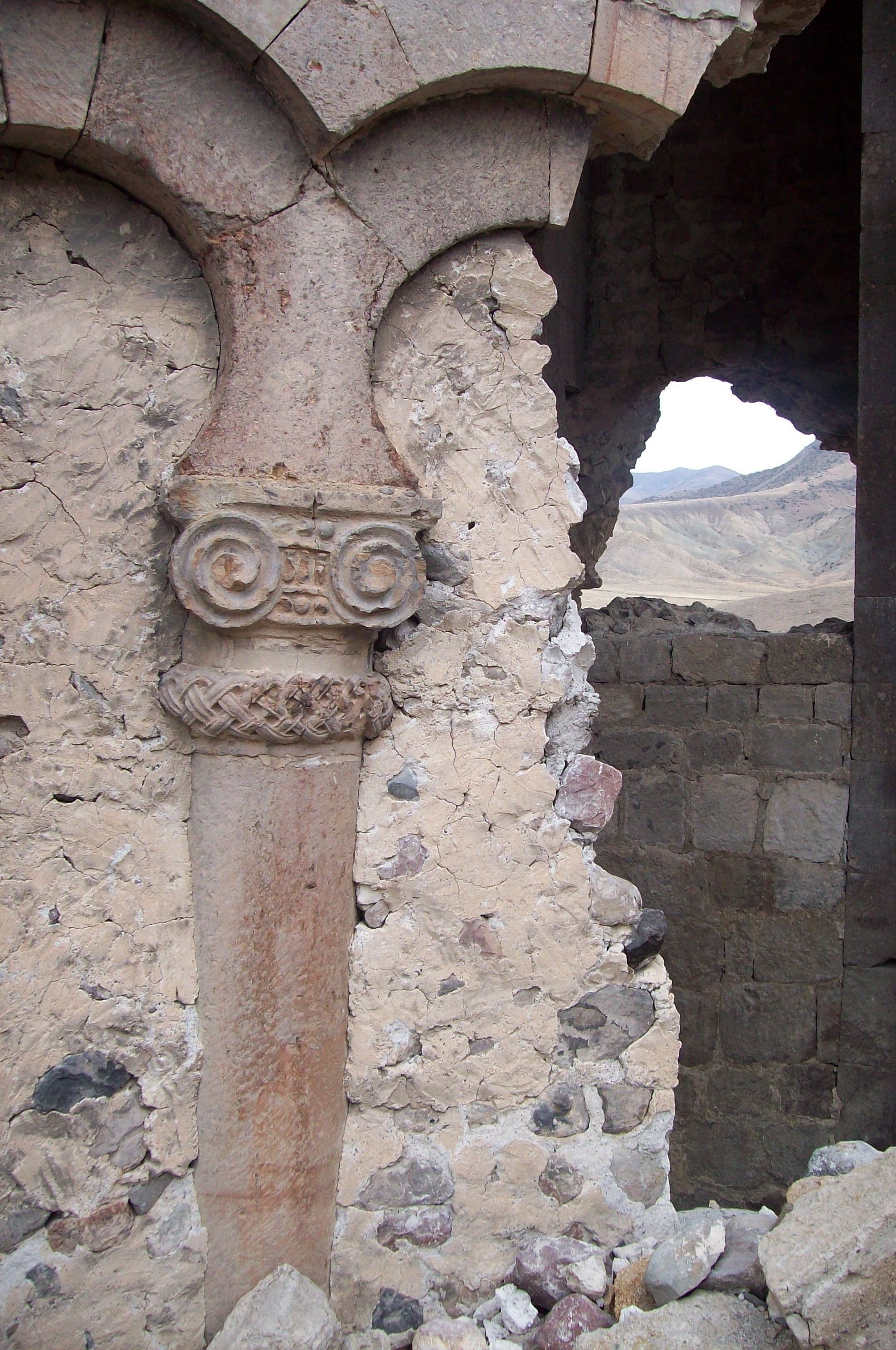 Bana Cathedral (Turkey)